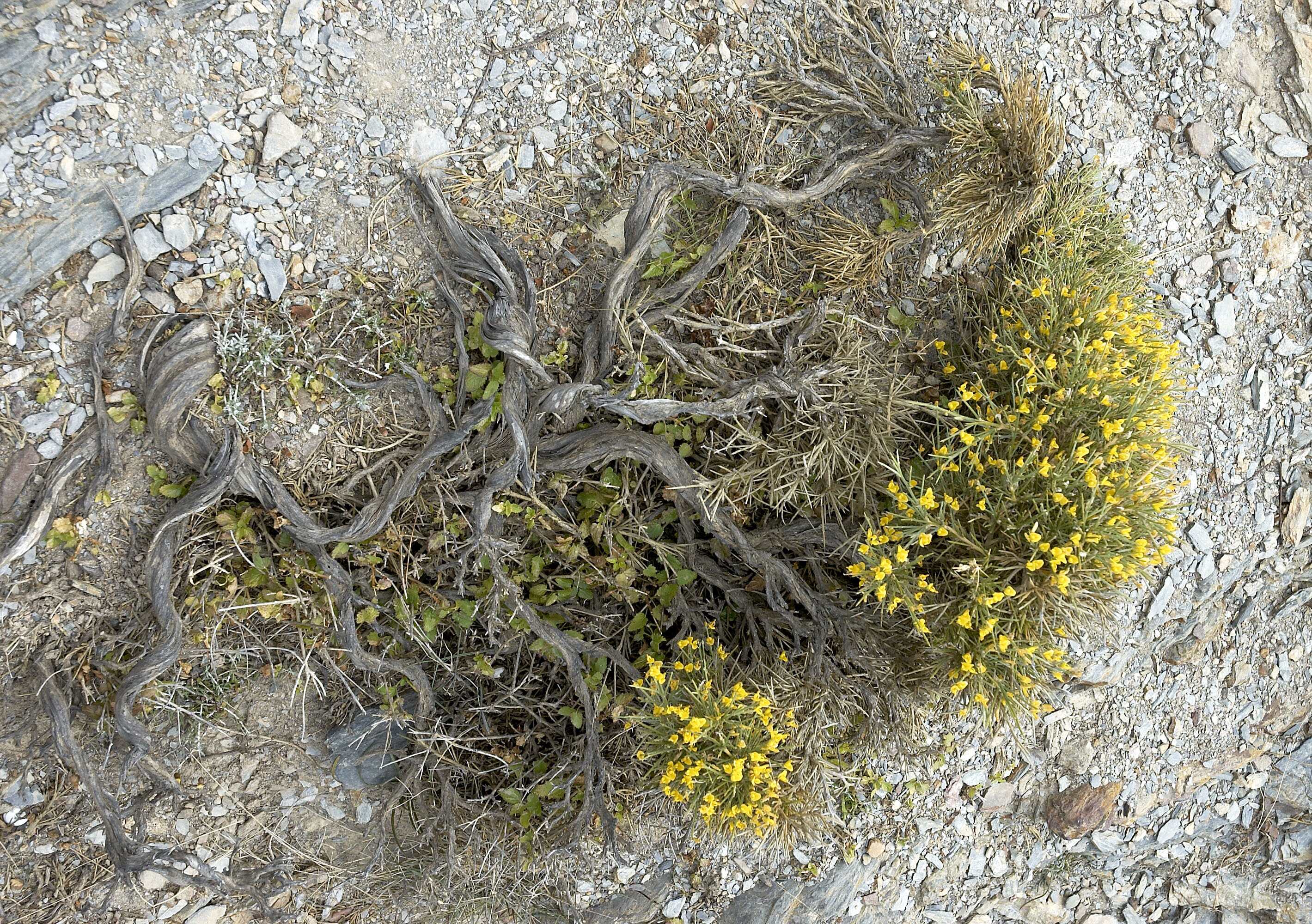 Genista acanthoclada (determined from book Wild Flowers of Crete ISBN 9608227771). Photo taken in Vai, Crete